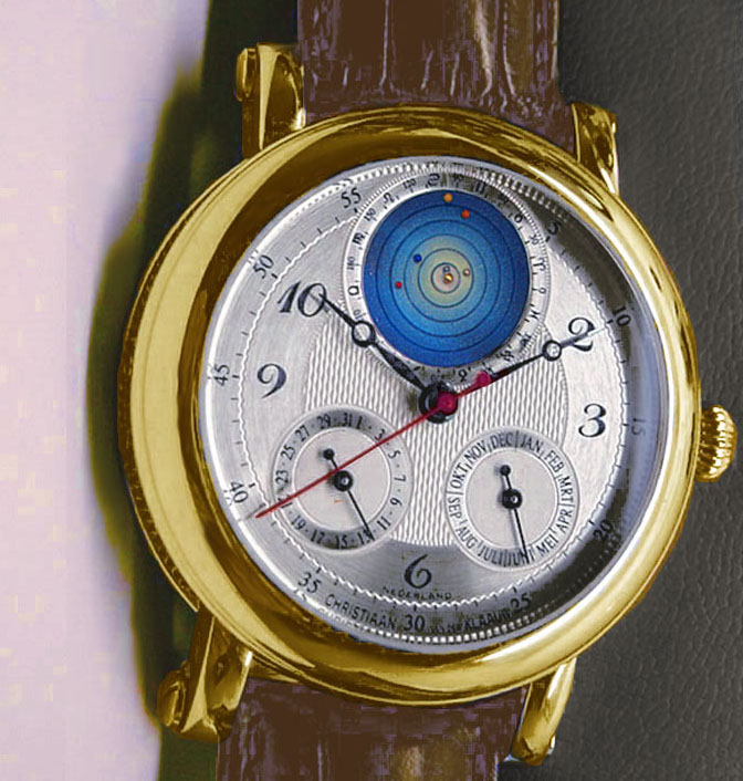 Planetarium2000